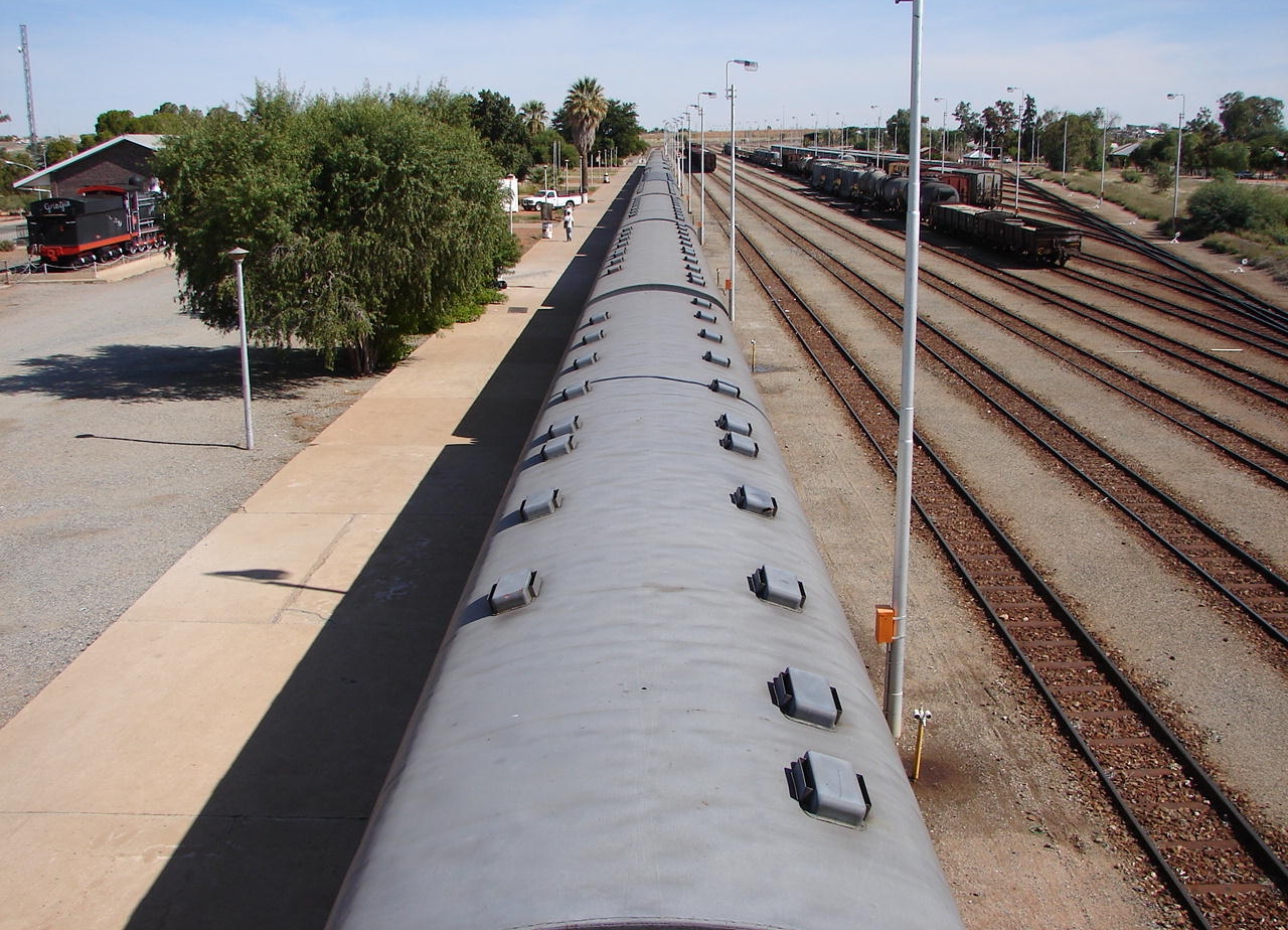 Upington station, Northern Cape, looking west